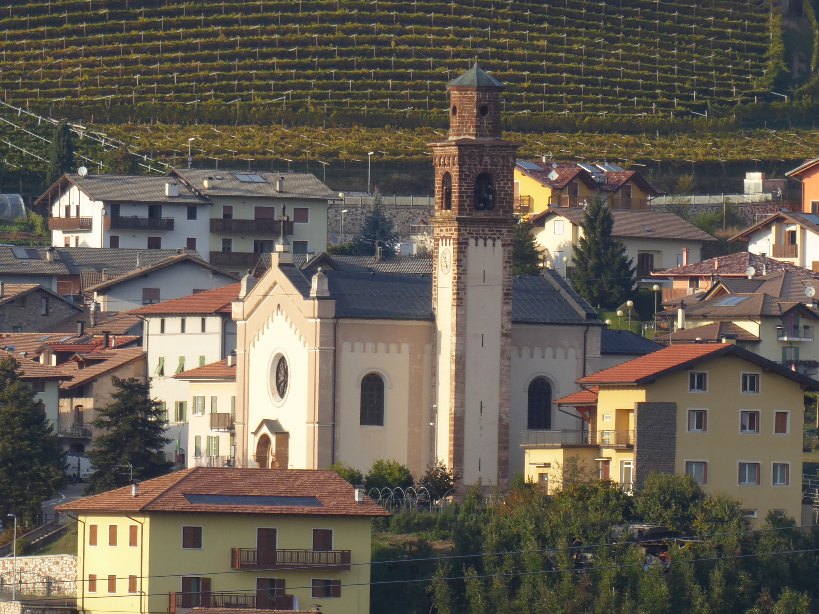 The church of Saint Nicholas in Ville di Giovo (Giovo, Trentino, Italy)